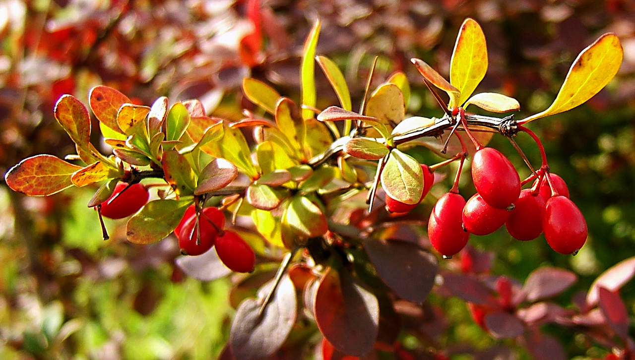 Japanese barberry or Thunberg's Barberry in autumn; branch with berries